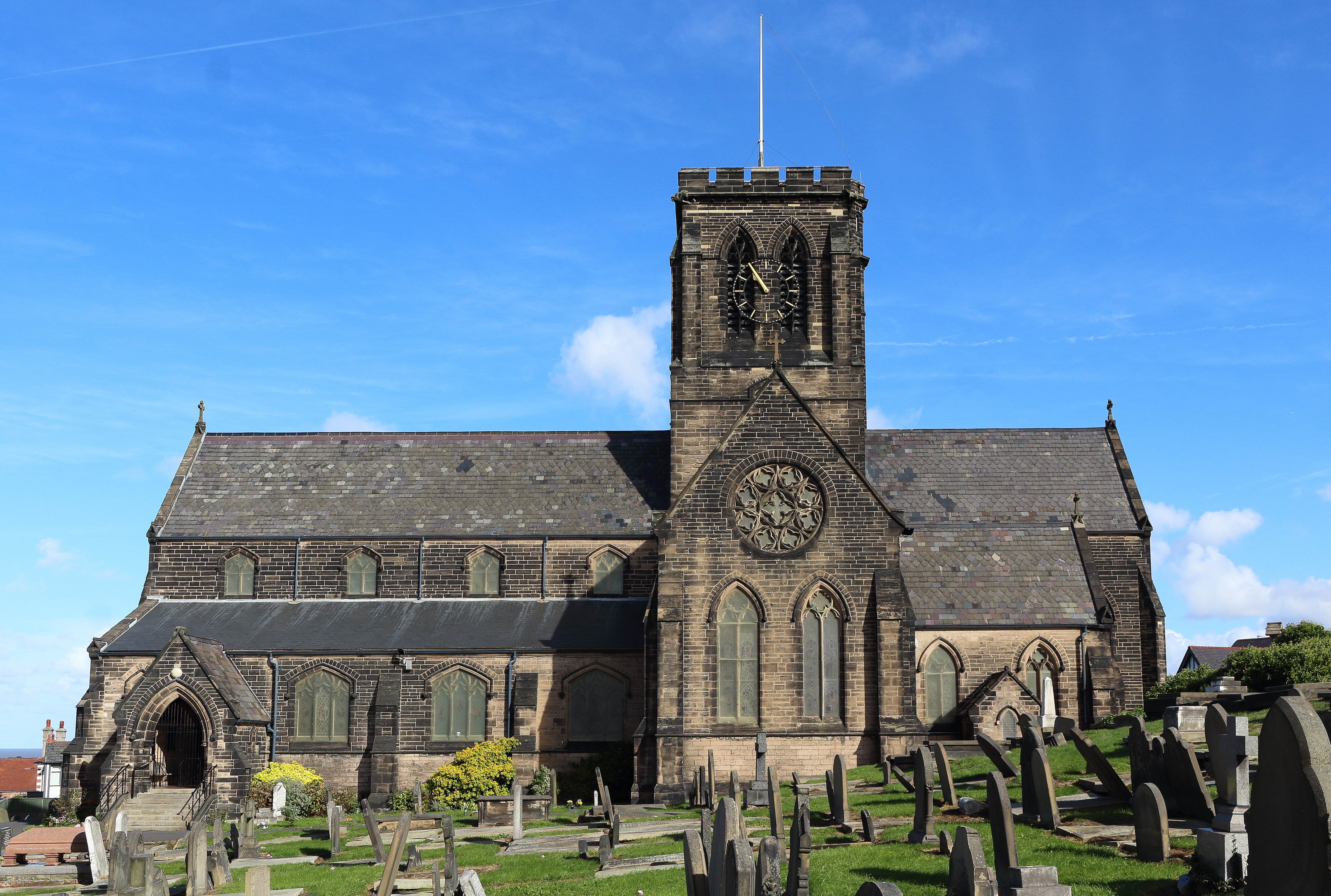 Grade II listed church in Wallasey, Merseyside. View north from the wall of the churchyard.